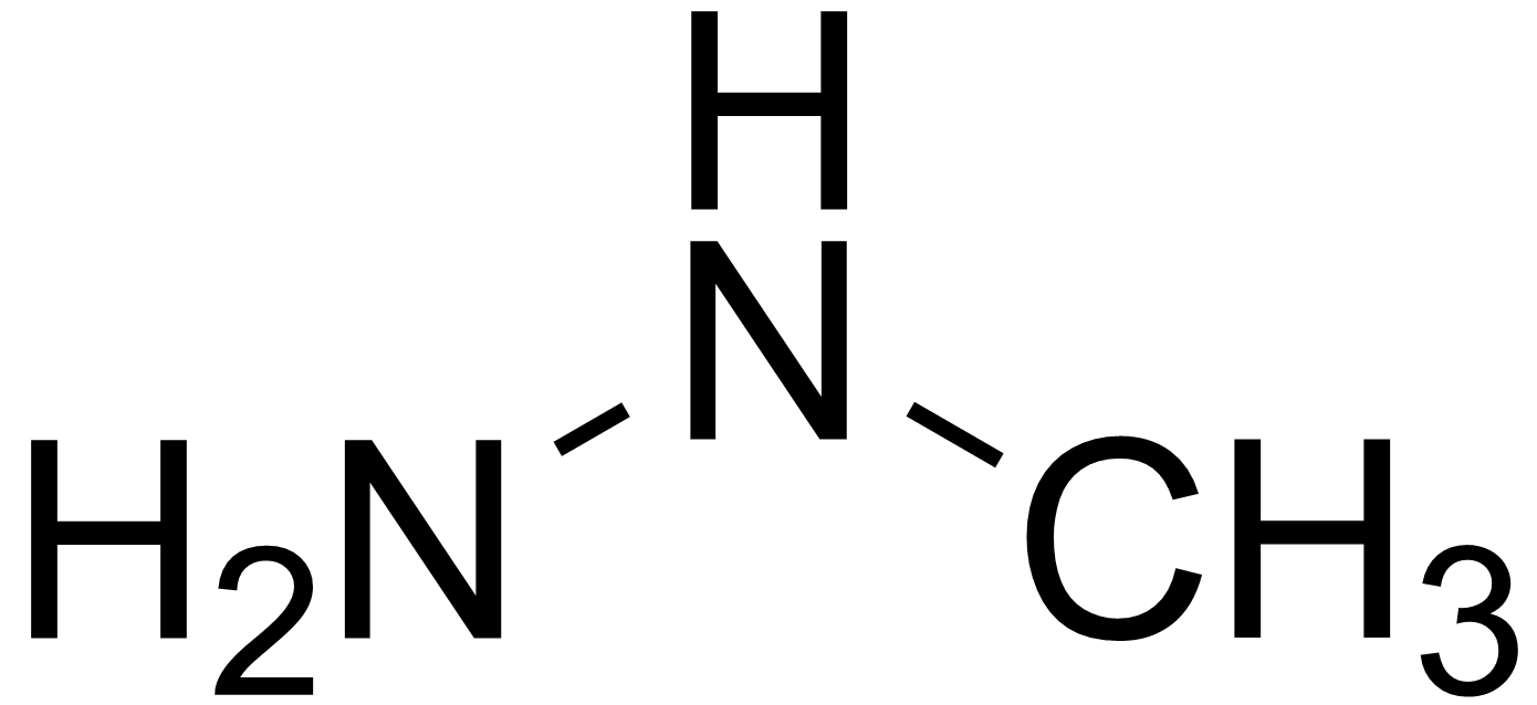 chemical structure of monomethylhydrazine